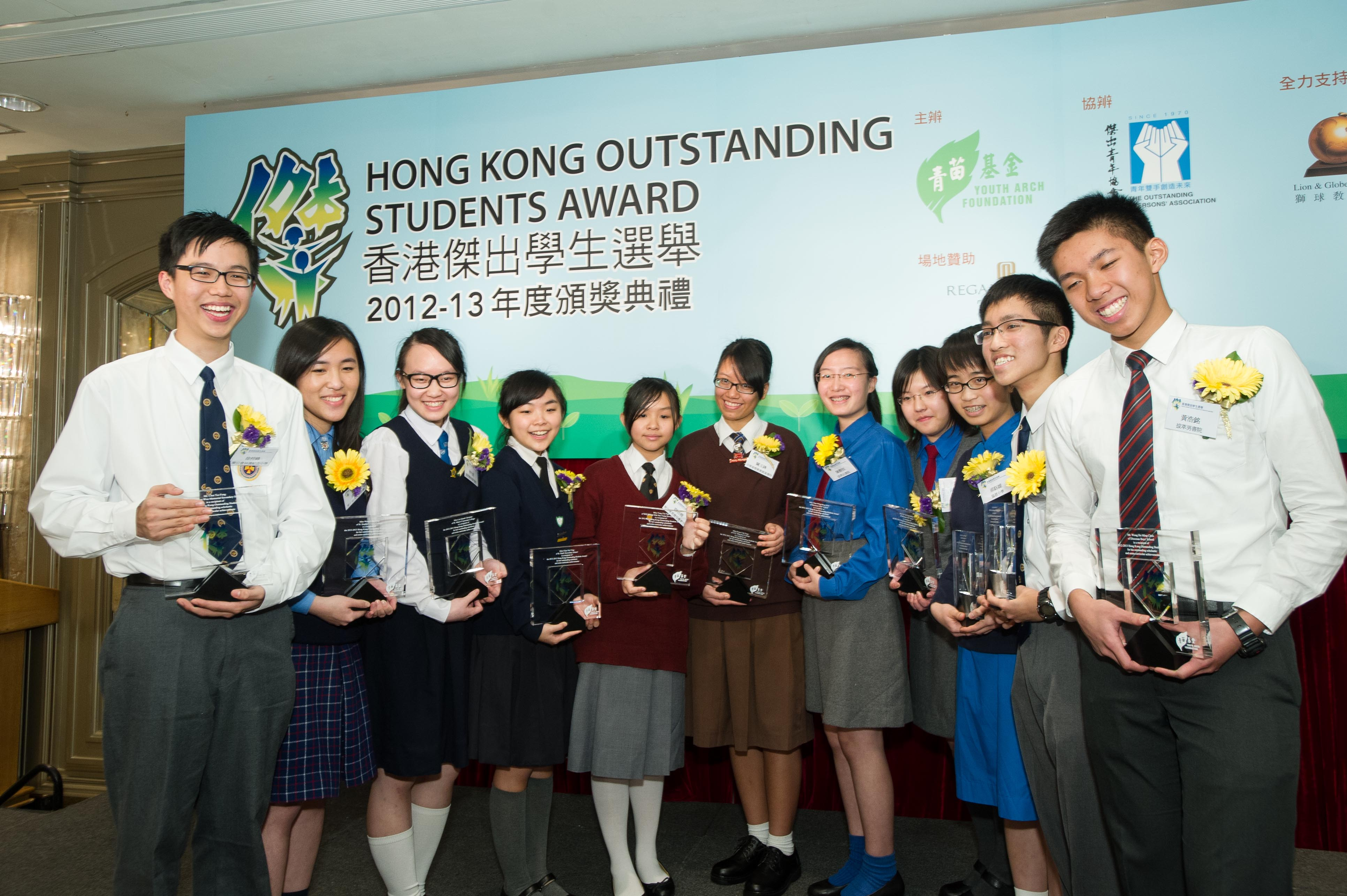 Hong Kong Outstanding Students Award 2012-13, award ceremony on Jan 27, 2013